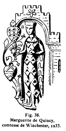 Margaret de Quincy, Countess of Winchester